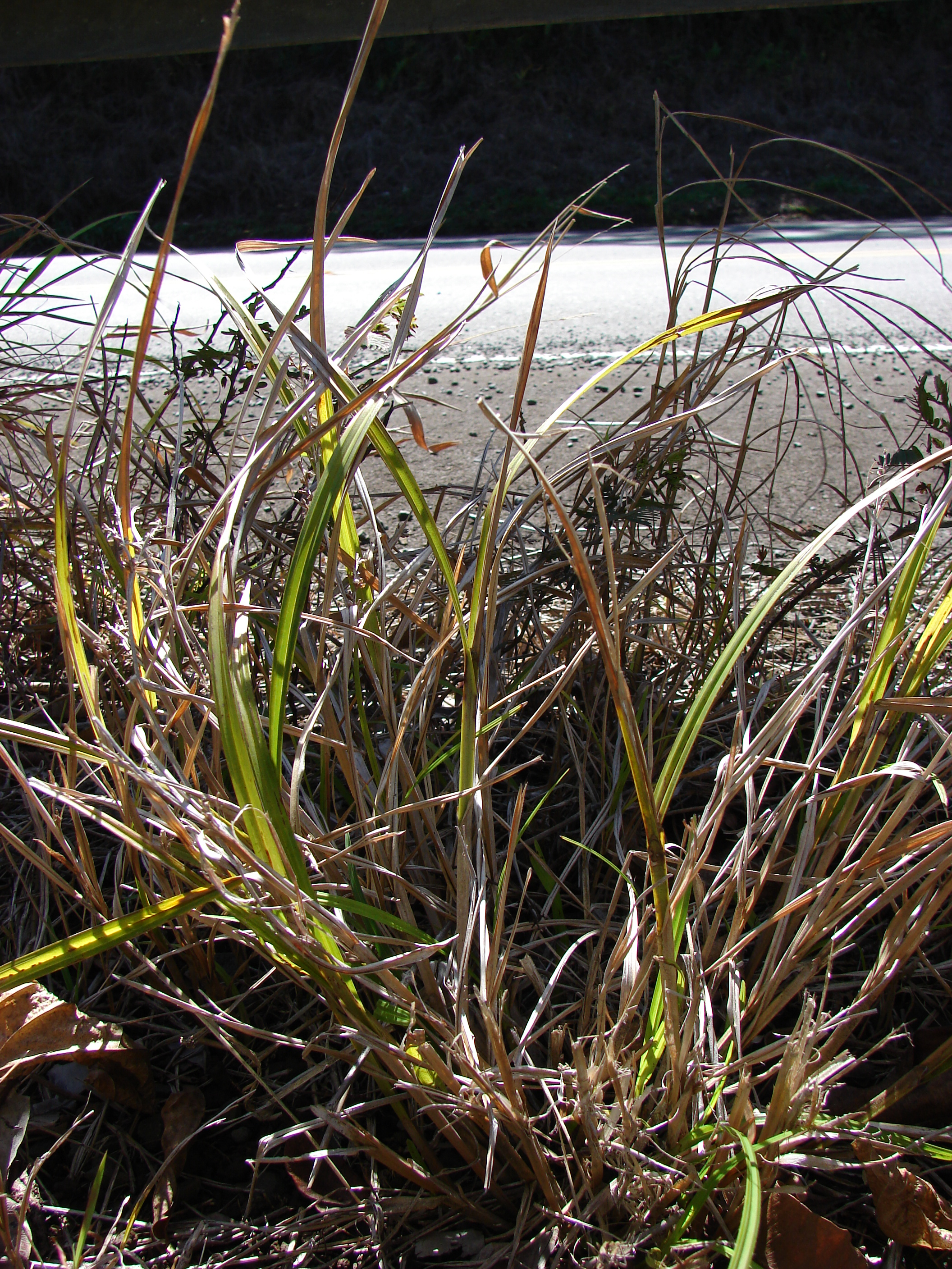 Scleria testacea (habit). Location: Maui, Hana Hwy